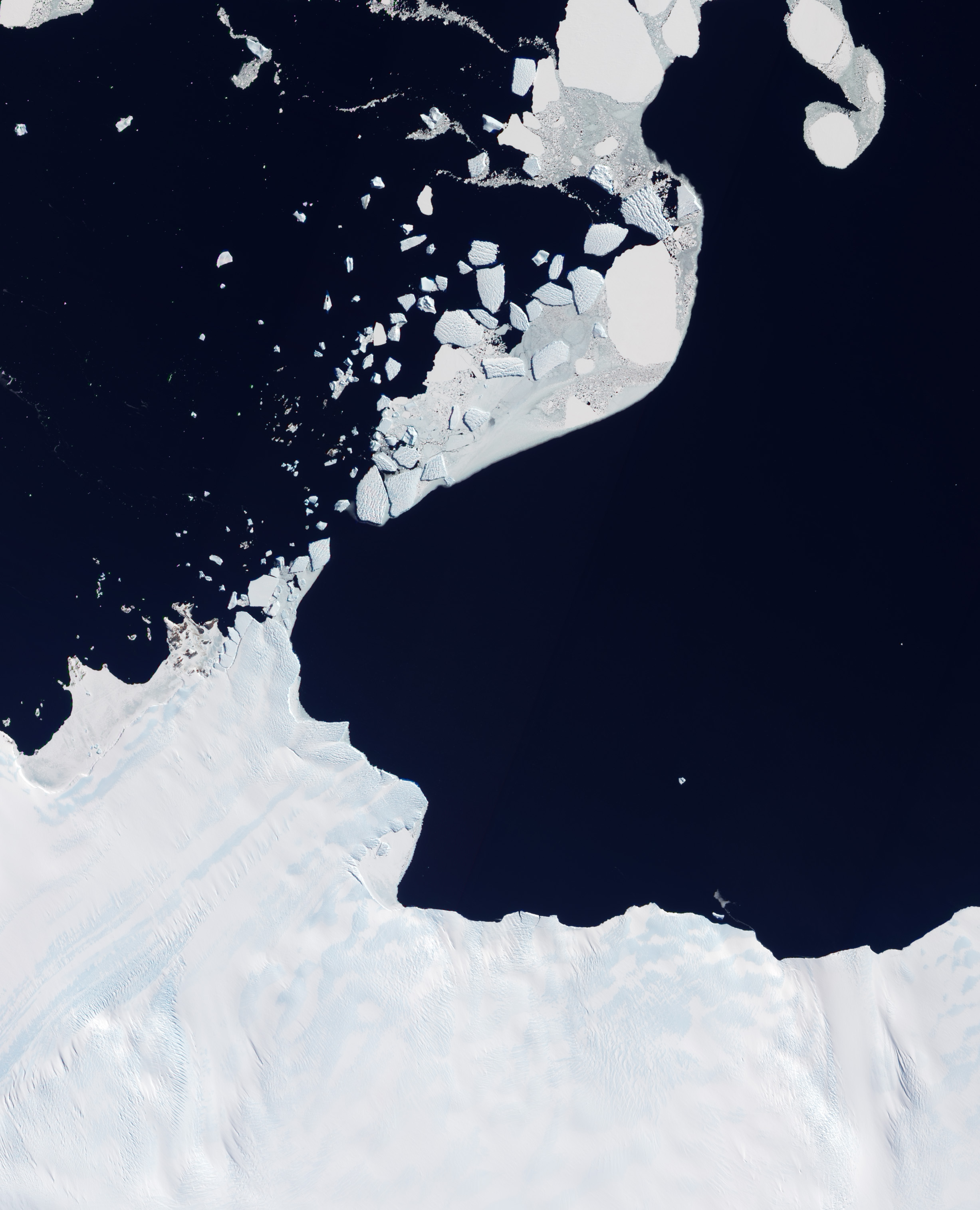 Natural-colour image of Astrolabe. The ice calving shown in this image is not necessarily unusual for the region or the time of year.